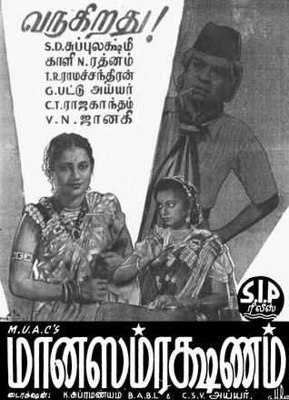 Manasamrakshanam 1945 Tamil Movie Poster